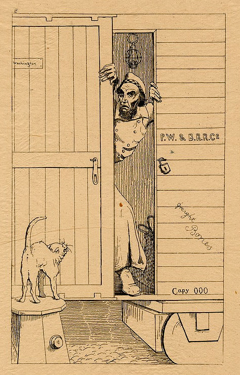 "Passage through Baltimore". Caricature of Abraham Lincoln sneaking through Baltimore, 1861. The abbreviation on the car identifies the Philadelphia, Wilmington and Baltimore Railroad.